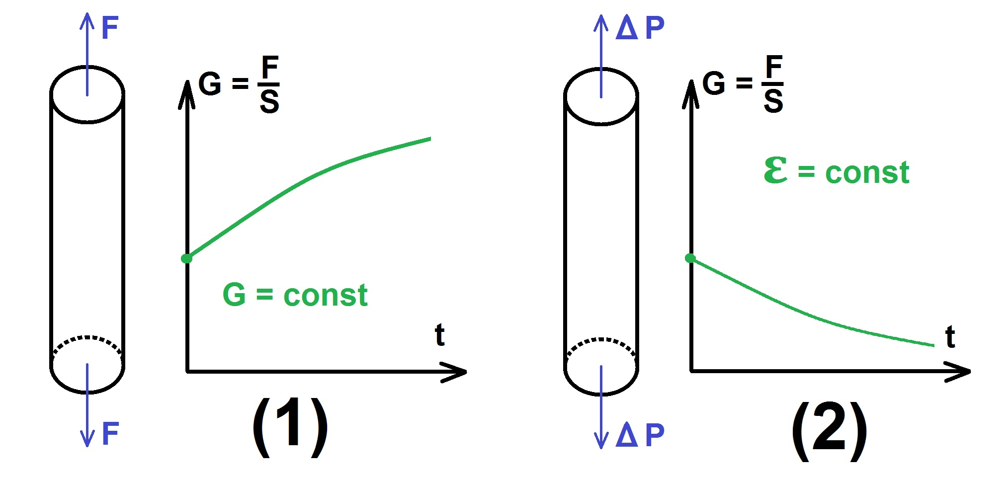 (1) A typical increase in deformation (creep) at constant applied force F over time t$ (2) A typical graph of relaxation - decrease the force at a constant deformation over time.